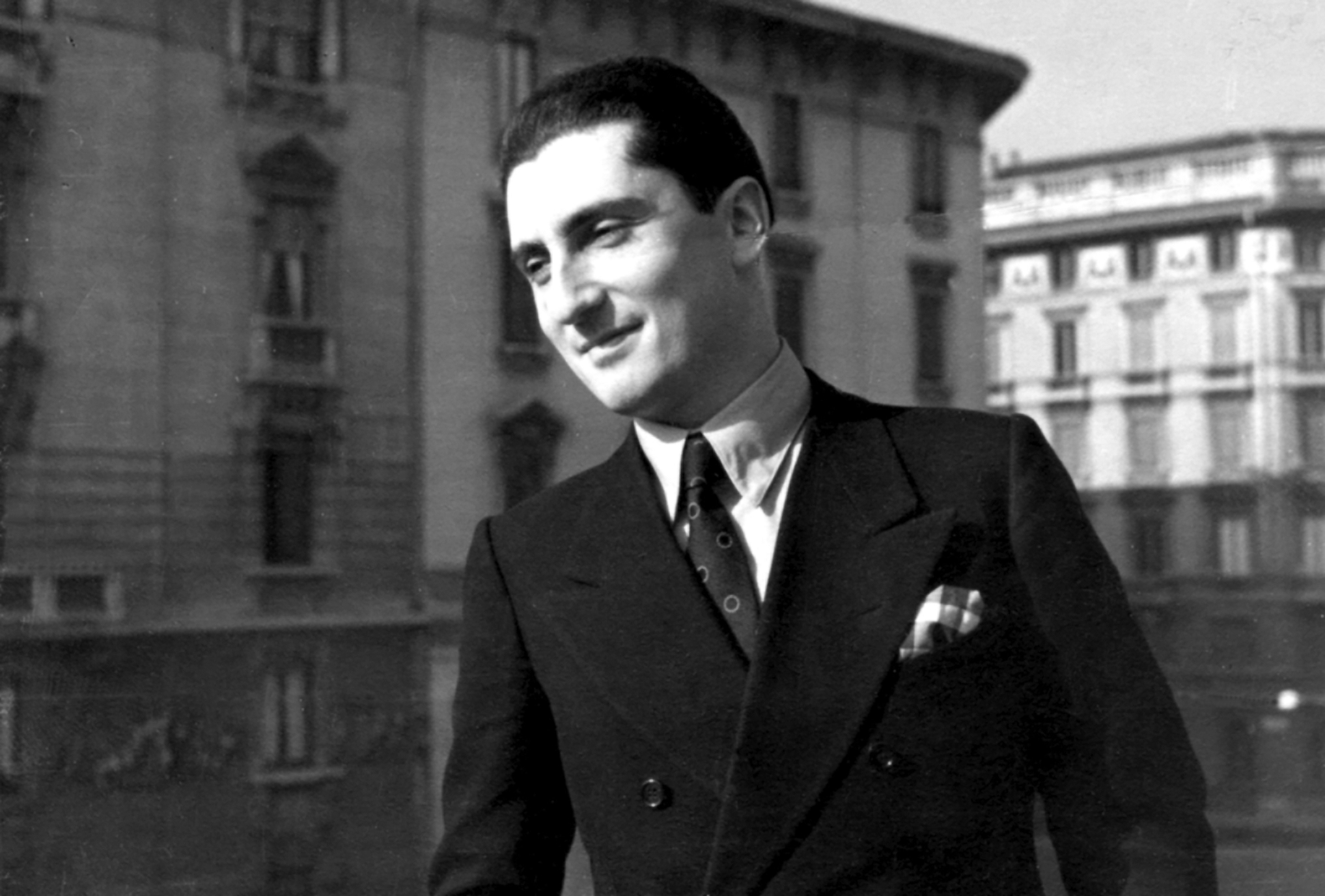 Gian Carlo Testoni, 1937